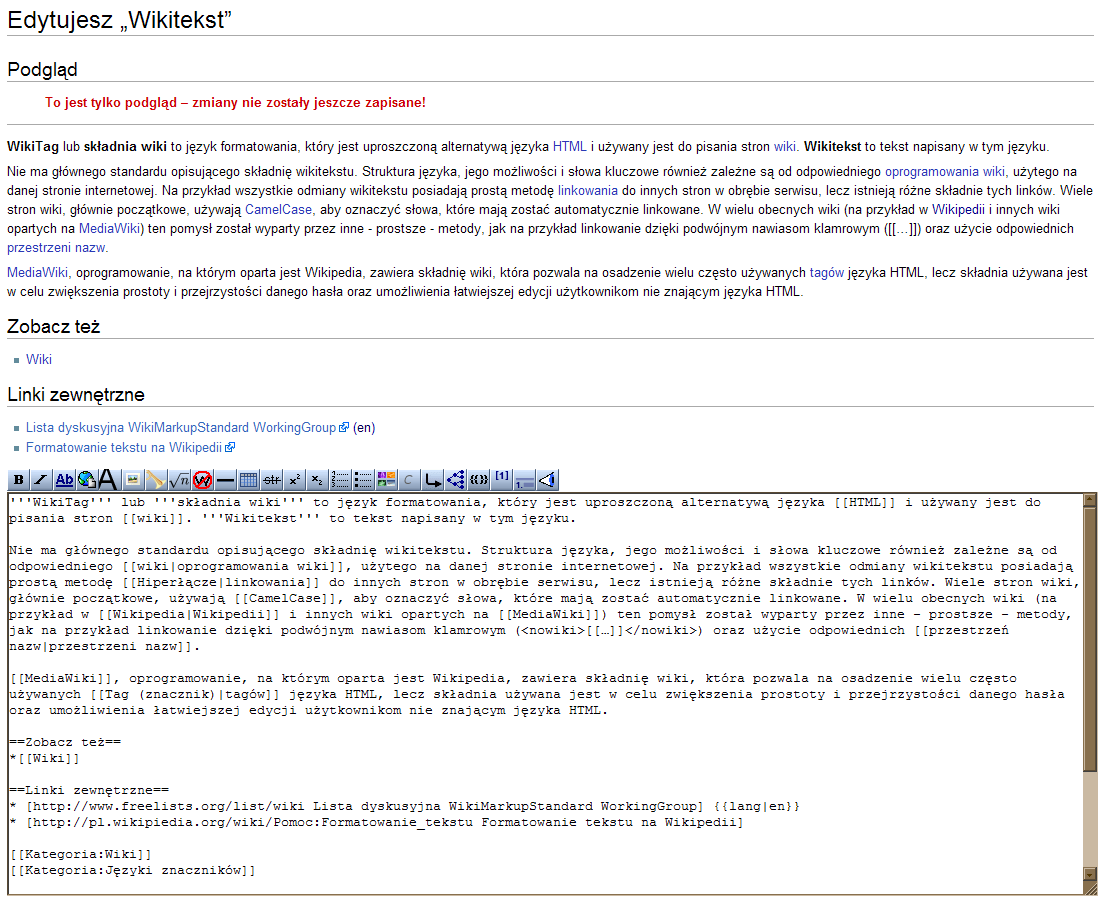 Editing Wikipedia article. Screenshot shows what is wikitext.